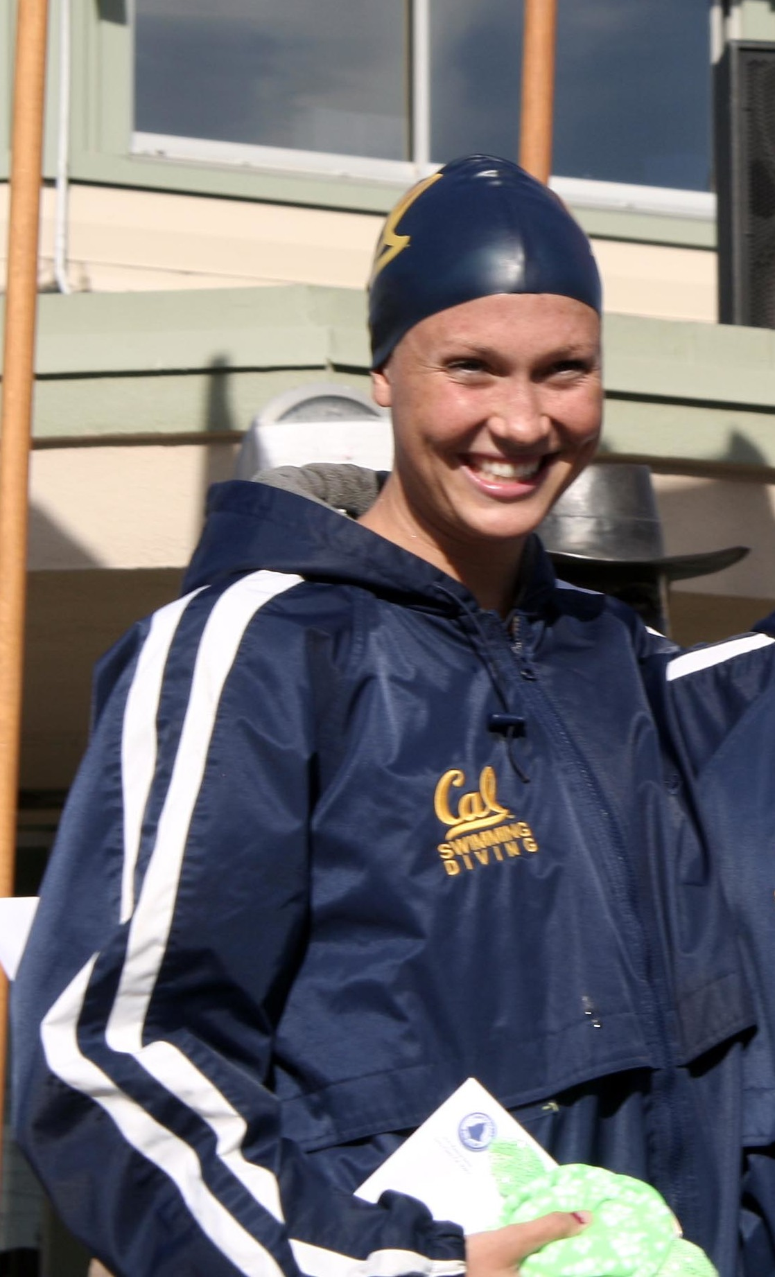 Natalie Coughlin, center, captured the women’s 100 freestyle in 54.12 seconds, beating Emily Silver by 1.58 seconds, and took the 100 butterfly in 58.45 seconds, .05 ahead of Dana Vollmer.